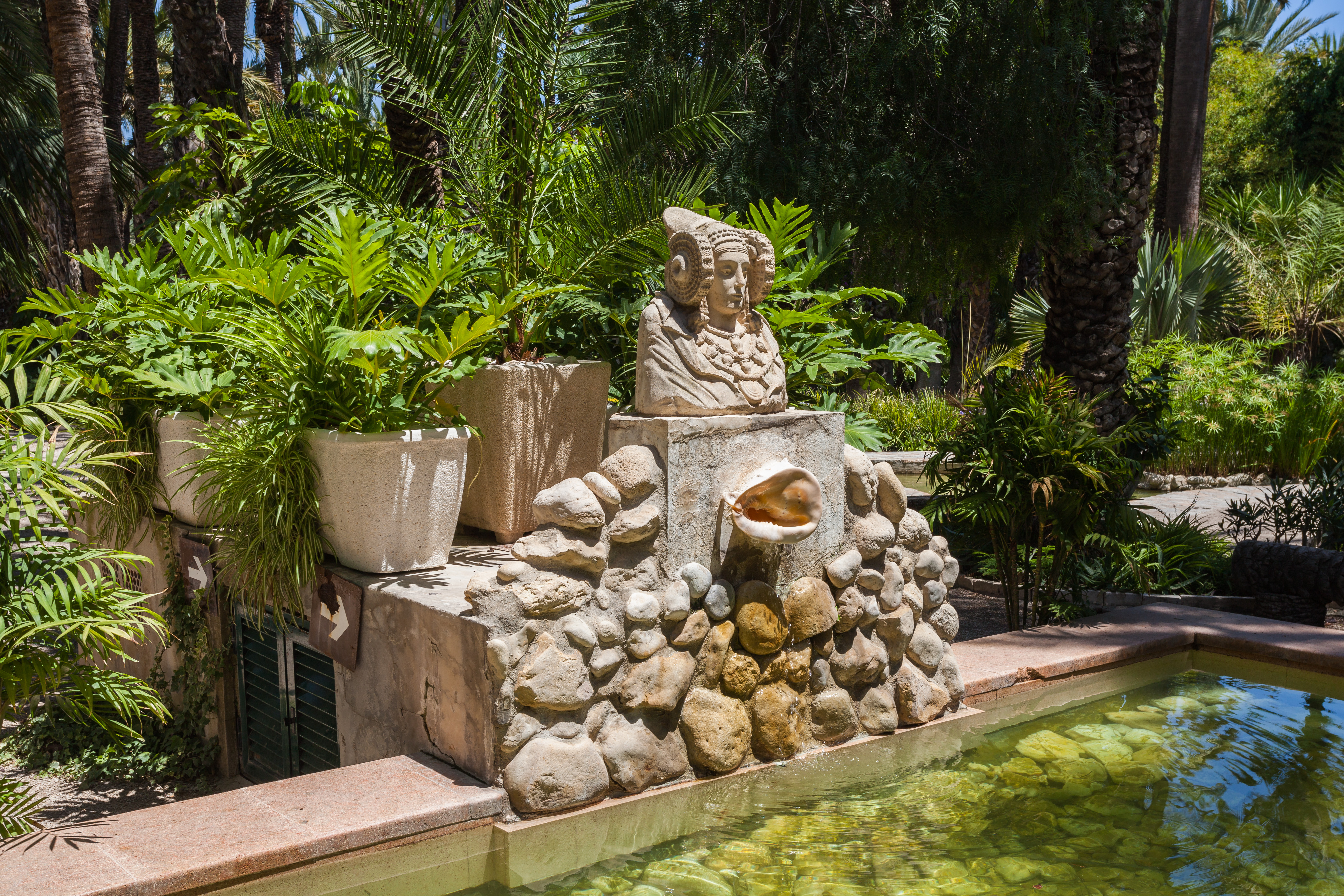 Huerto del Cura (Priest's vegetable garden), Elche, Spain